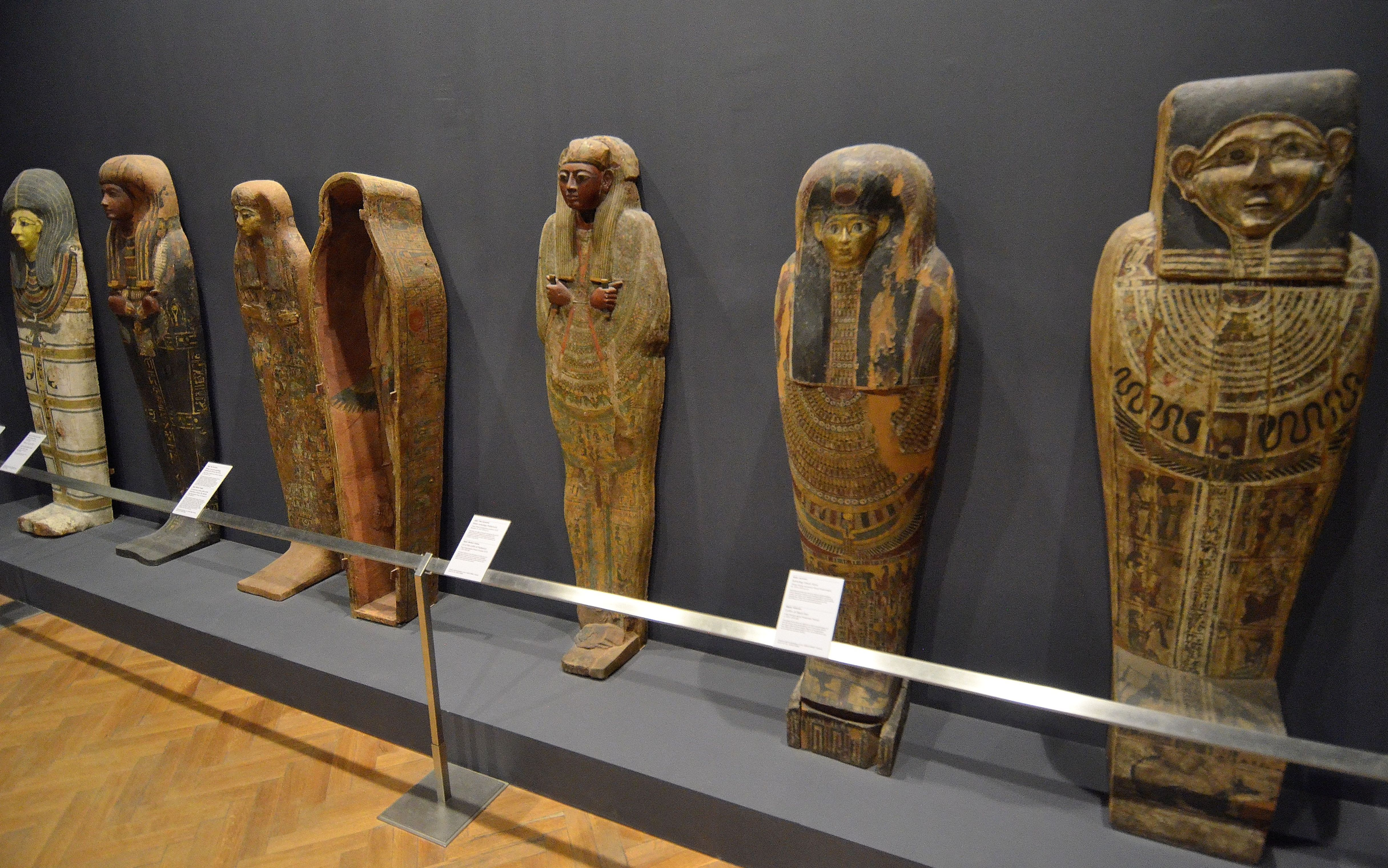 Egyptian Gallery in the National Museum in Warsaw